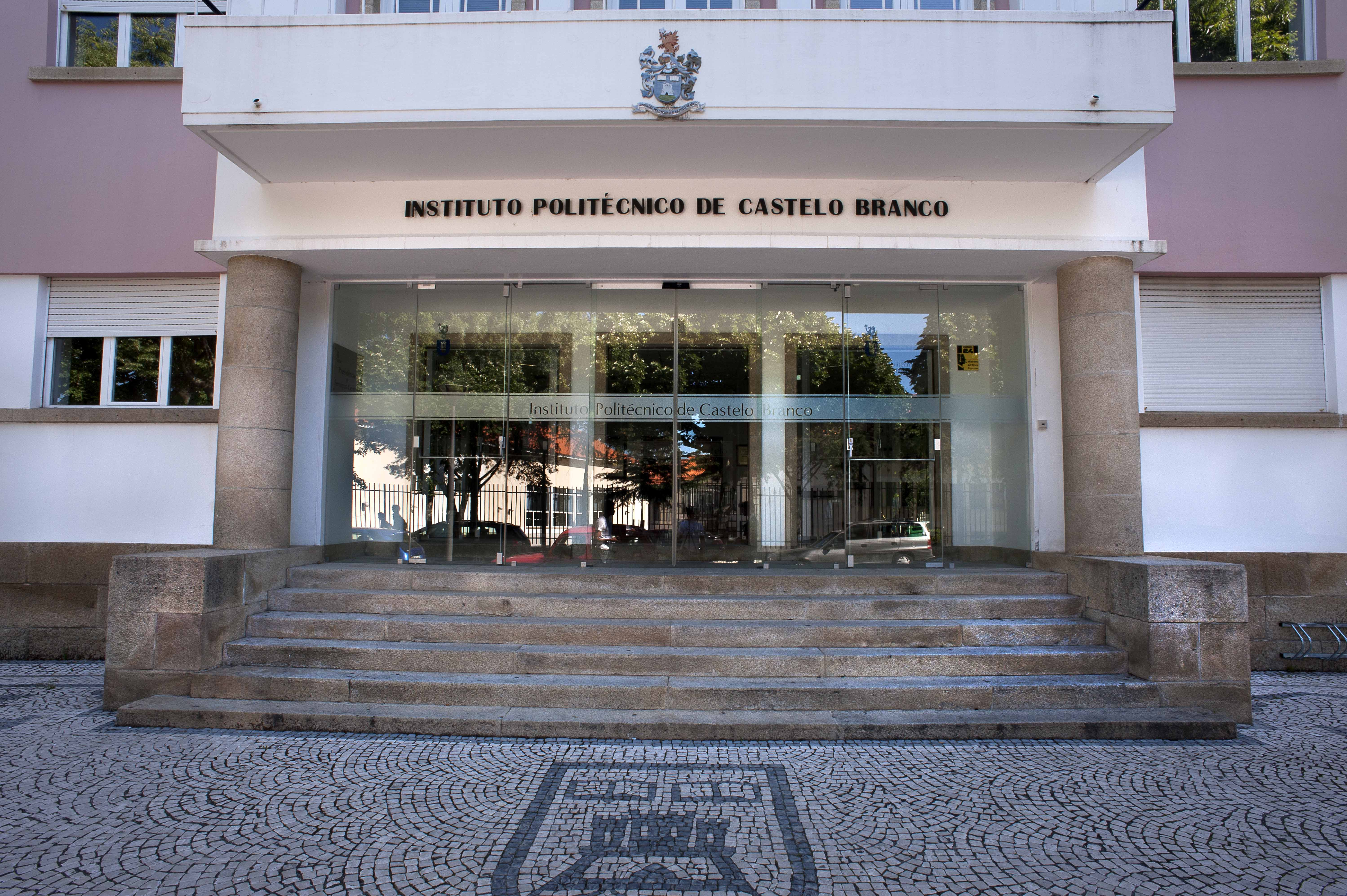 IPCB - Polytechnic Institute of Castelo Branco